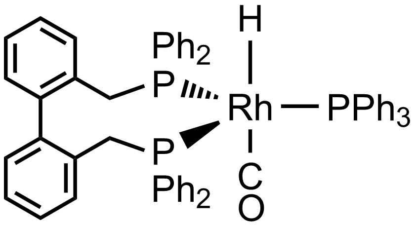 Chemical structure of a rhodium complex with BISBI